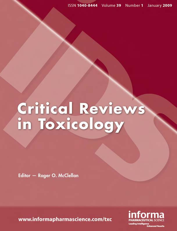 Critical Reviews in Toxicology cover image